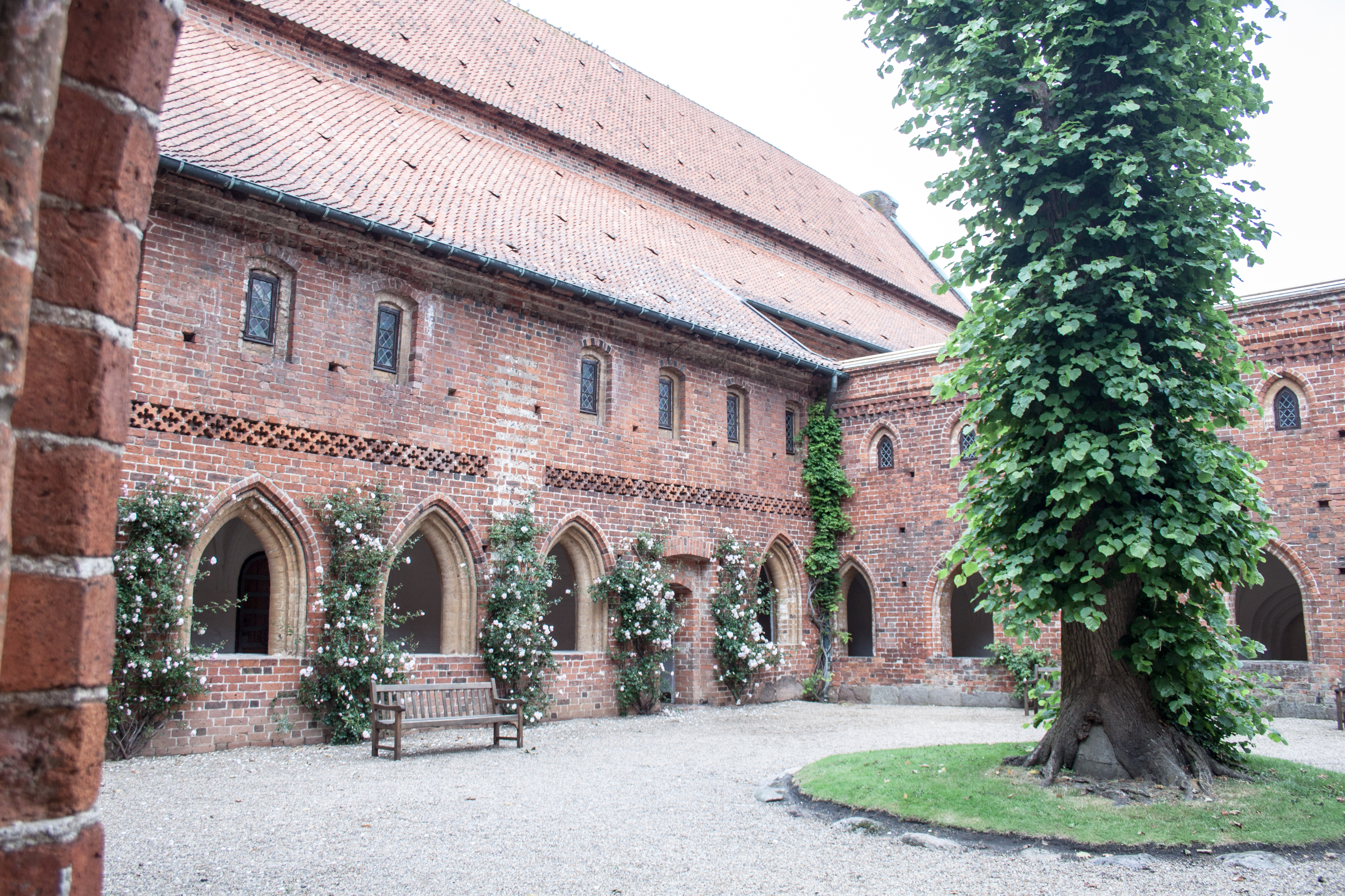 Saint Catherine cloister in Ribelabel QS:Len,"Saint Catherine cloister in Ribe" label QS:Lhu,"A ribei Szent Katalin-kolostor"